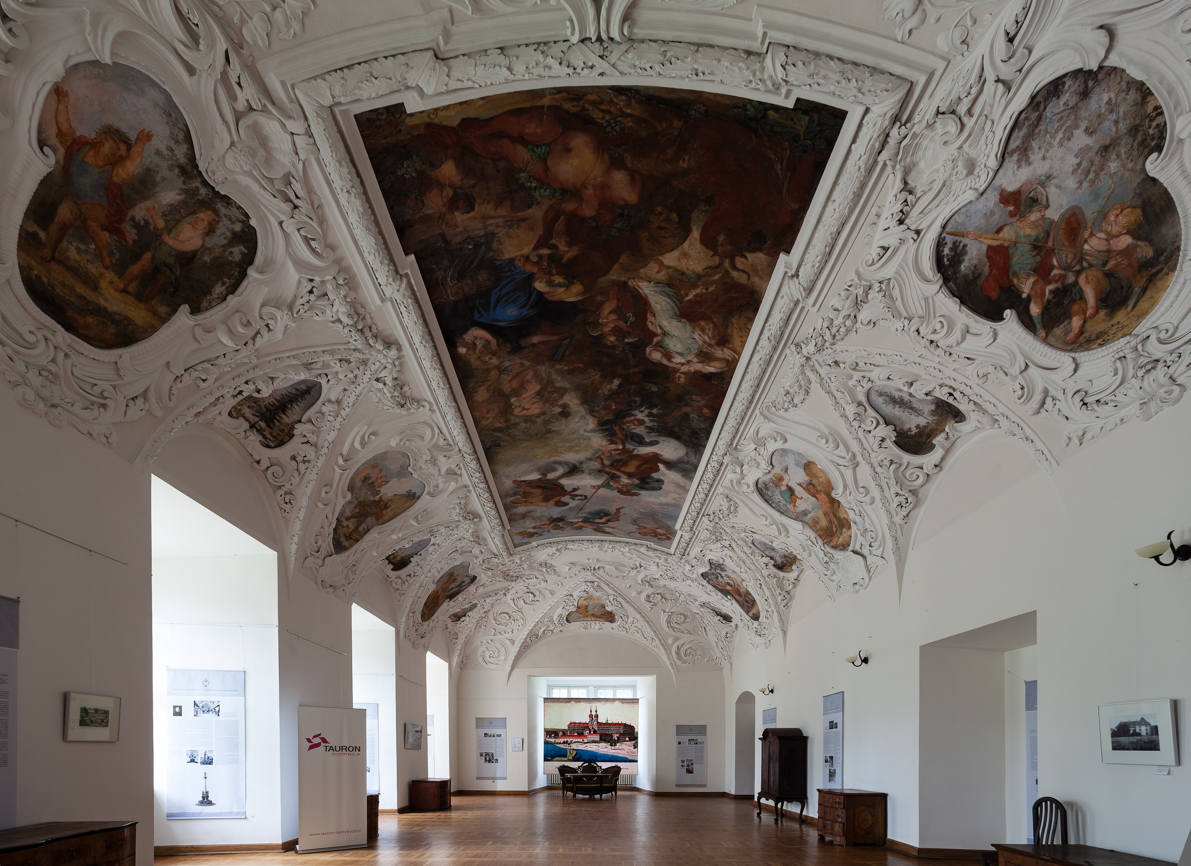 Lubiąż Abbey: abbots palace (abbot refectory)